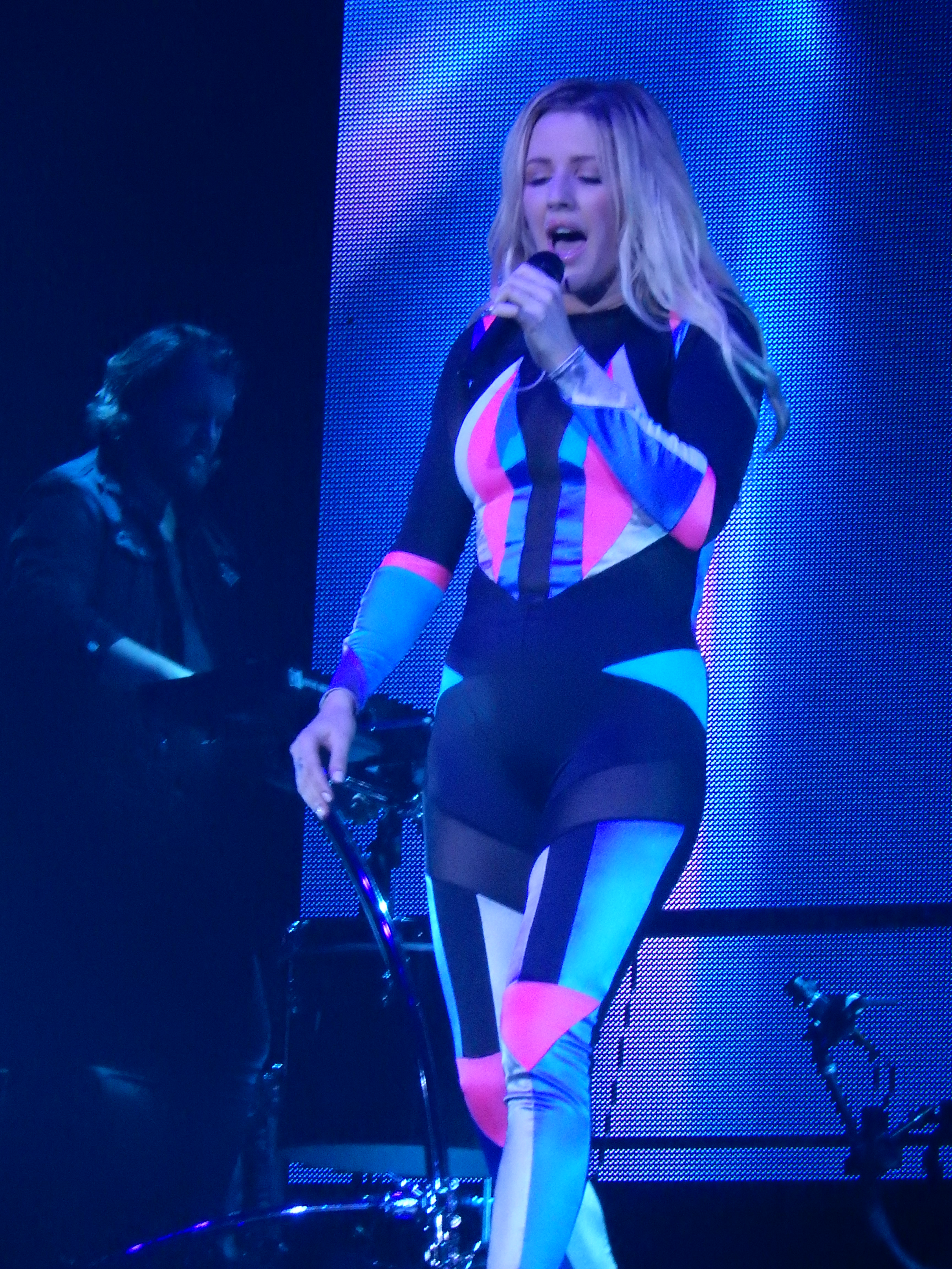 Ellie Goulding, O2 Arena, London